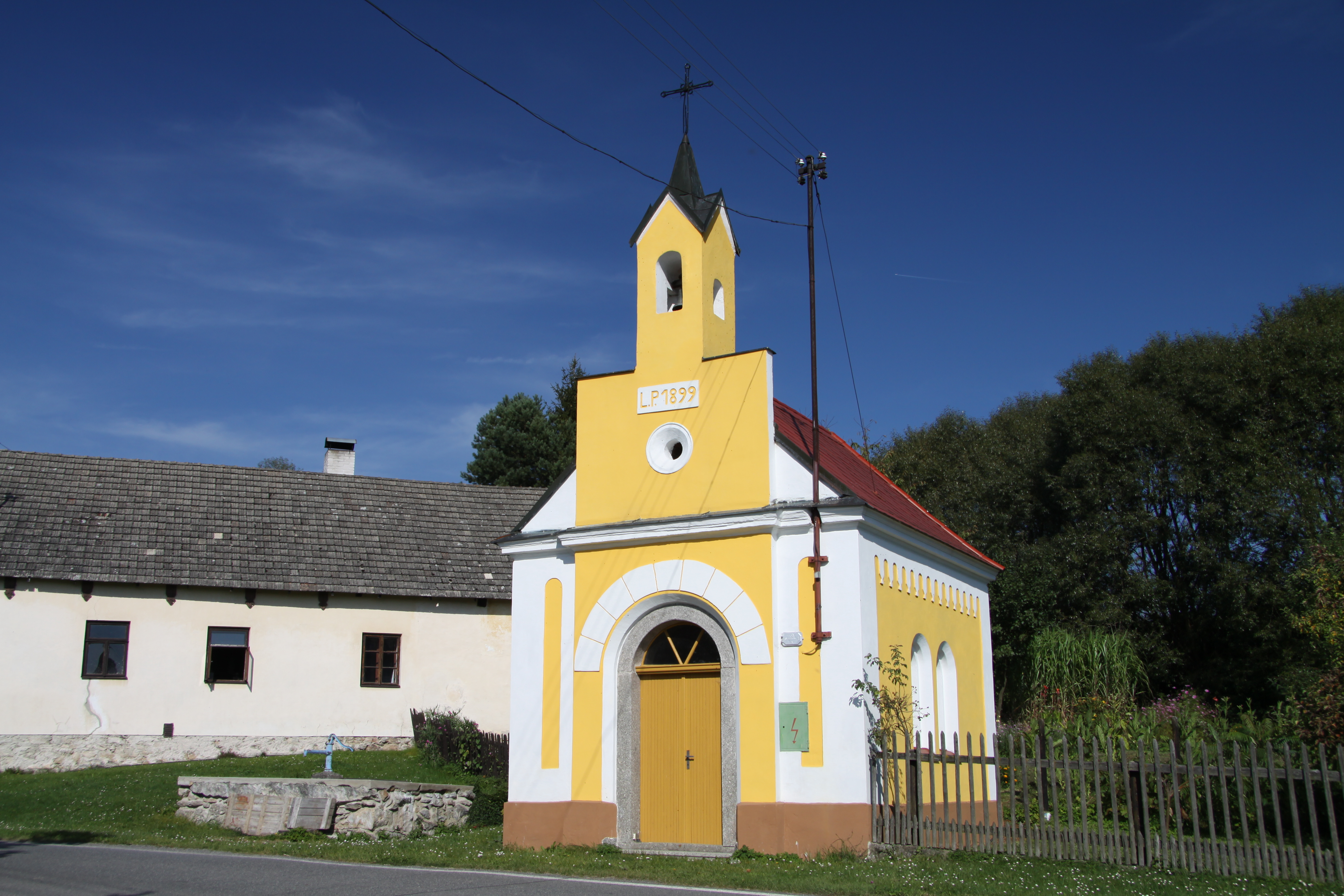 Chapel in Střítež, part of Vlksice village in Písek District, Czech Republic